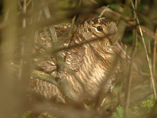 Woodcock (Scolopax rusticola) These birds are very secretive and well camouflaged so are normally only seen in the evening when they display or if flushed from a wood. Some winters birds stay near the path to the visitor centre at Titchwell, allowing a large number of people to appreciate them.